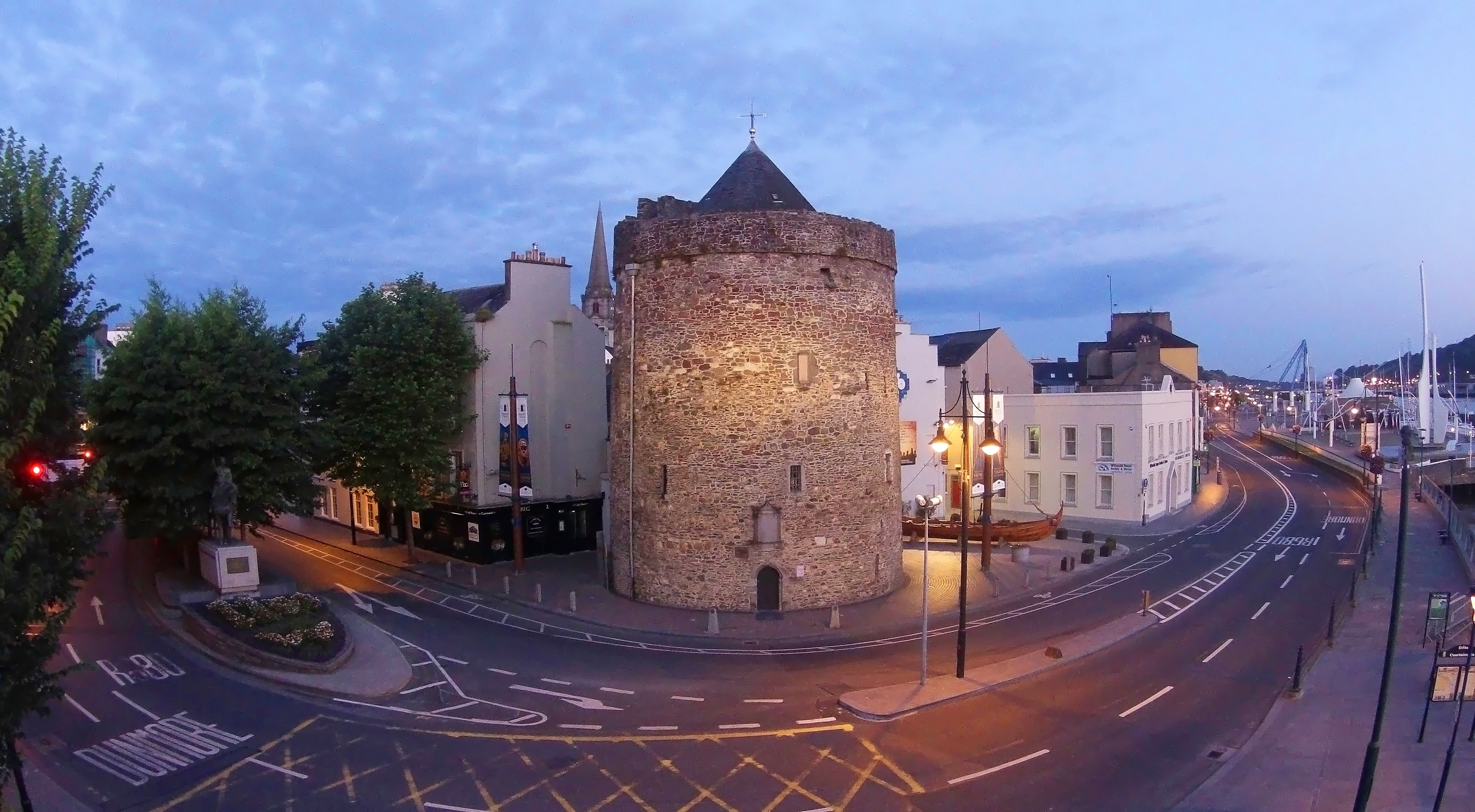 Reginalds Tower - the oldest working Civic Building in Ireland. Waterford city celebrates its 1100th birthday in 2014.